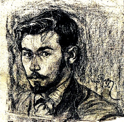 Autoportrait